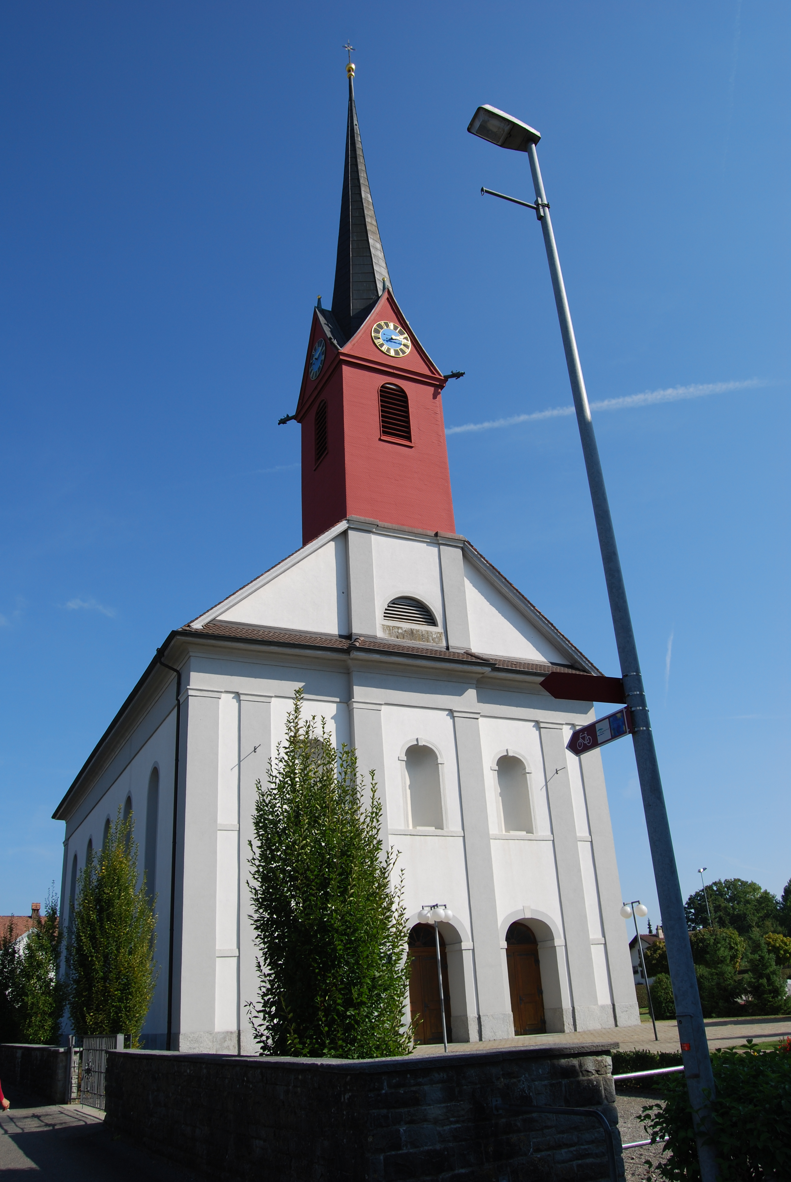 Church of Waltenschwil, canton of Aargau, SwitzerlandEsperanto: Preĝejo de Waltenschwil, Kantono Argovio, Svislando